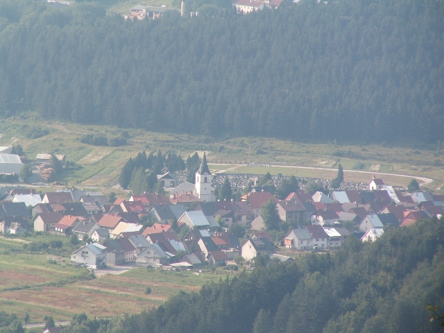 Delnice, Croatia